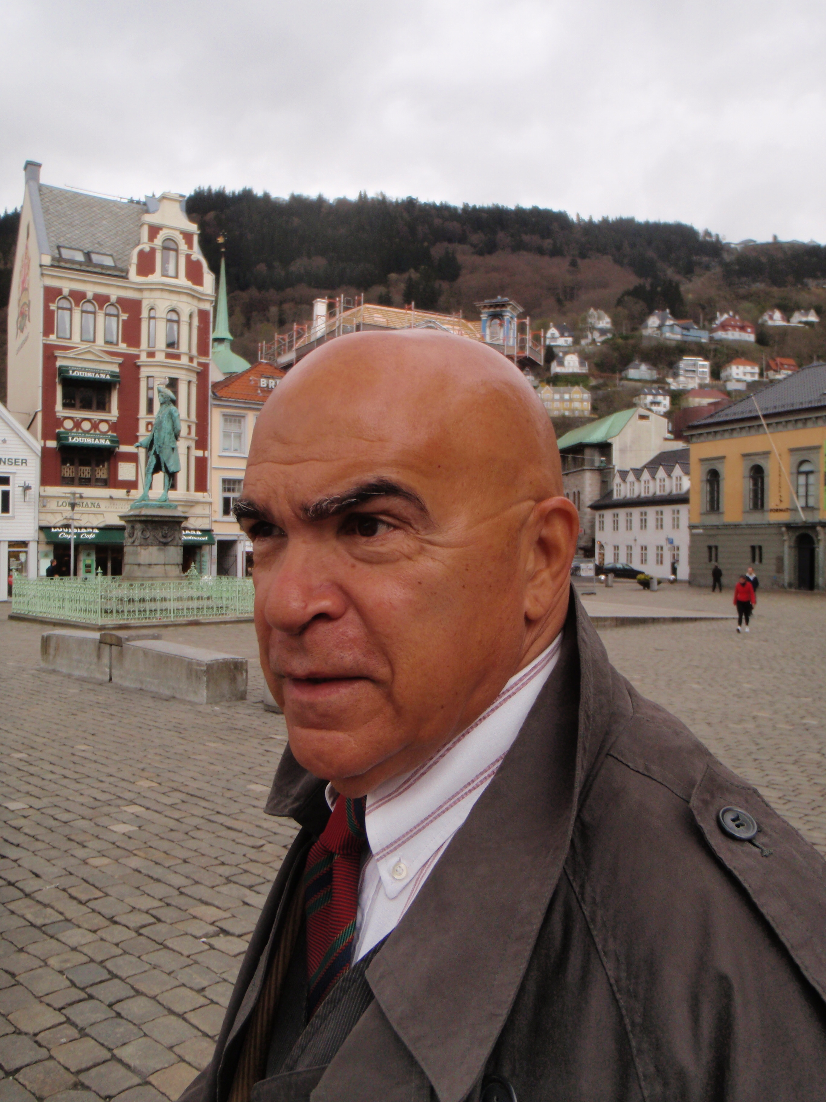 Artist E.C.Corbitt in Bergen